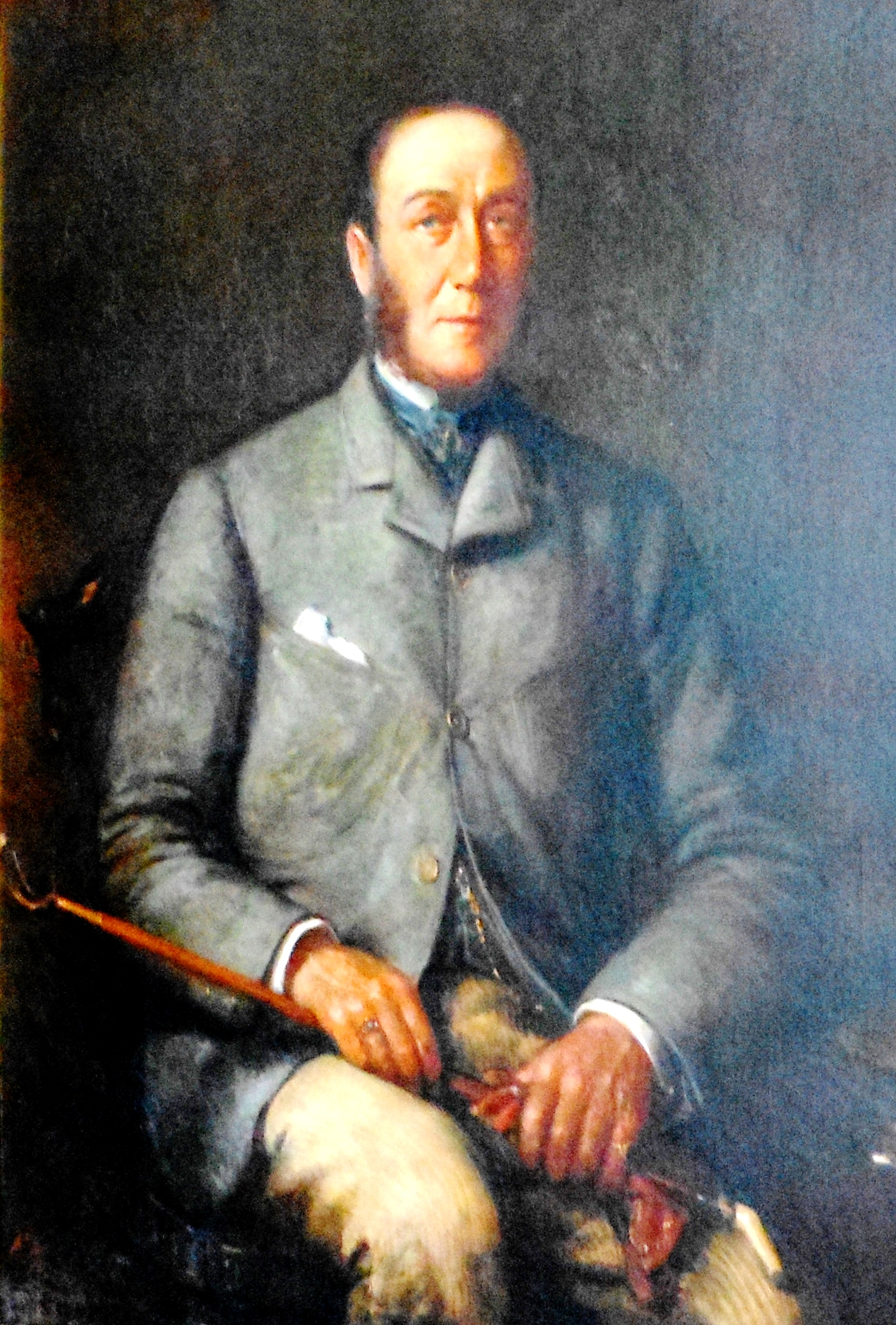 Painting of James Roosevelt, father of U.S. president Franklin Delano Roosevelt